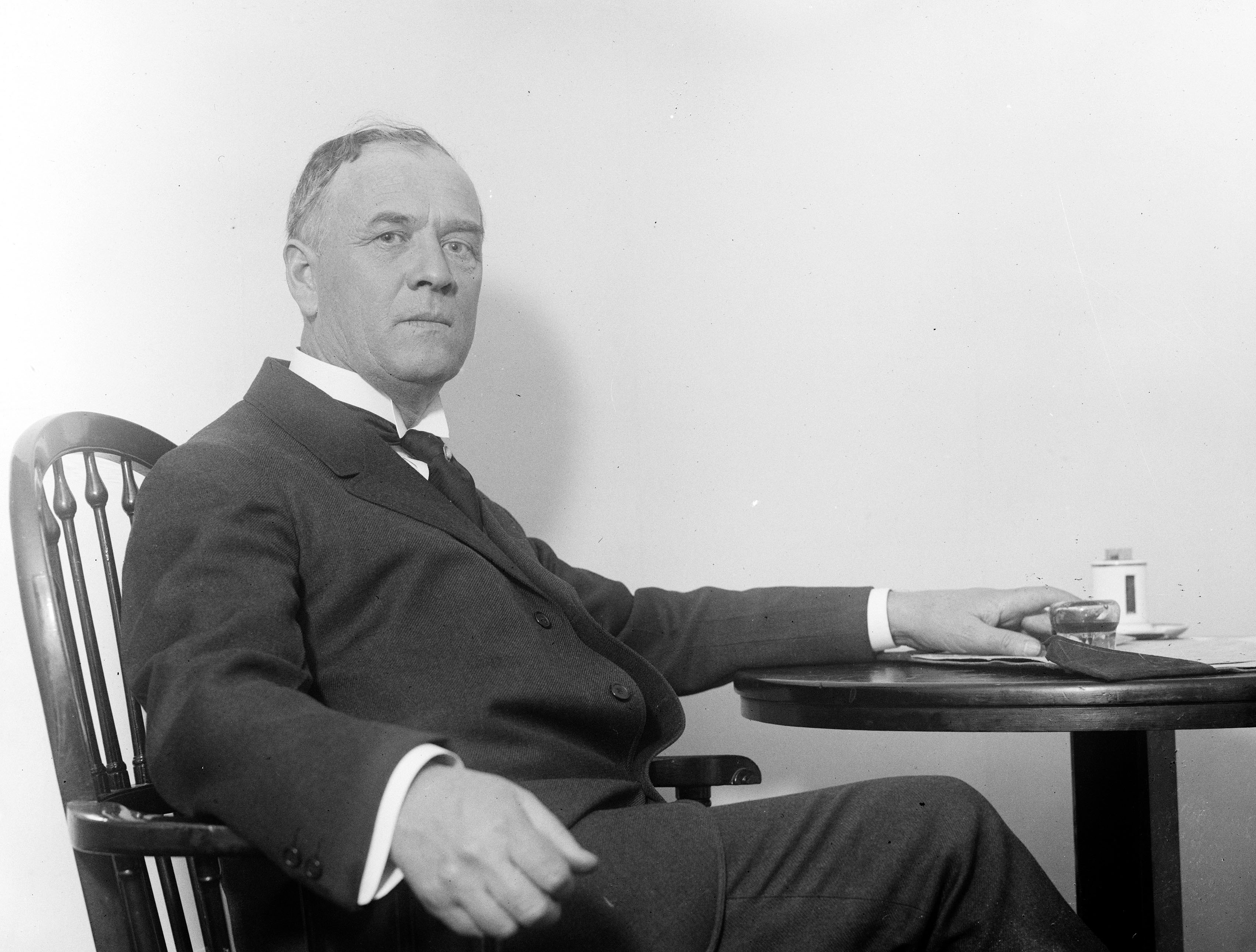 J.B.A. Robertson, Governor of Oklahoma